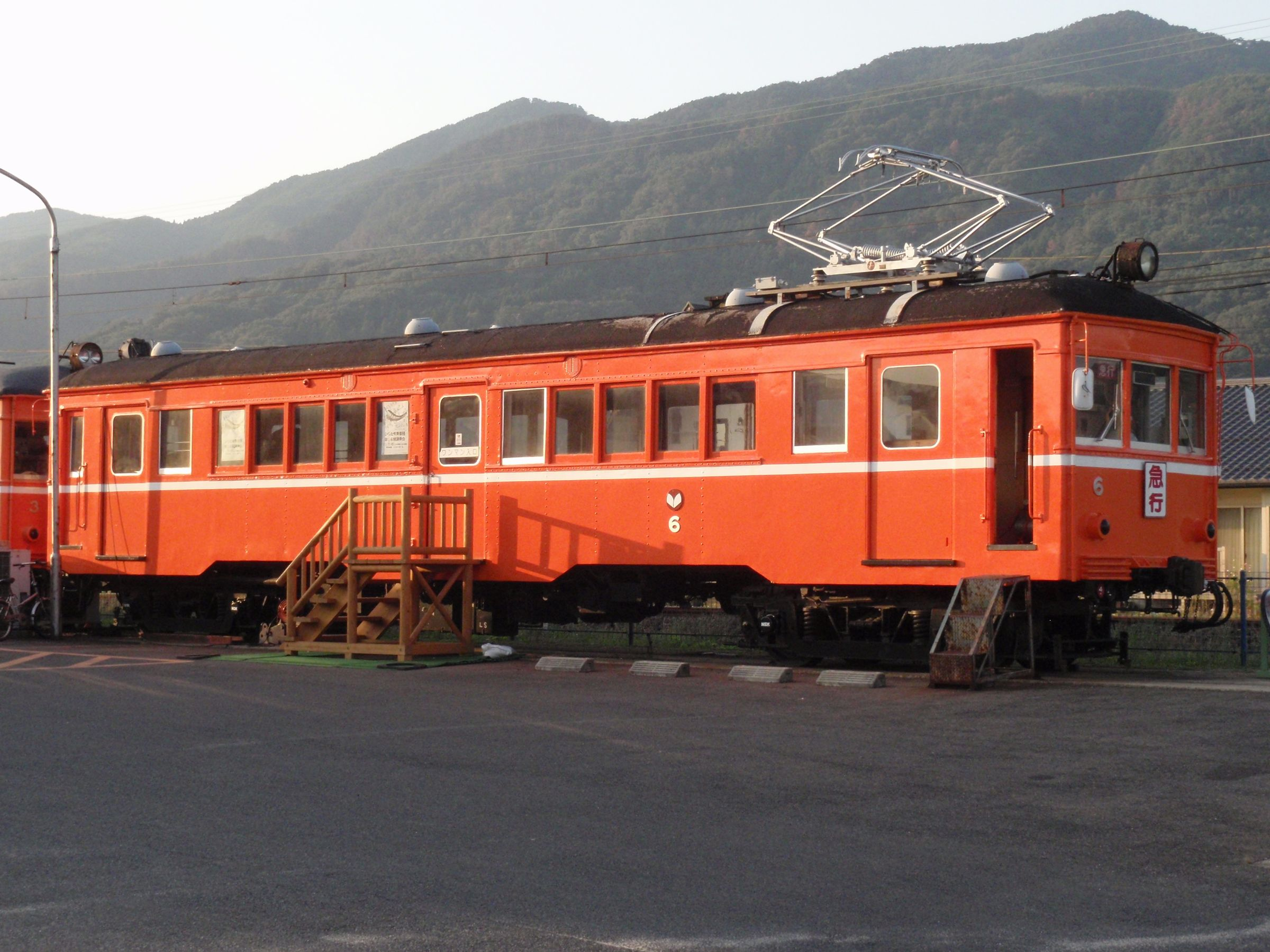 EMU Type Deha1 No.6 by Ichibata Electric Railway(BATADEN).